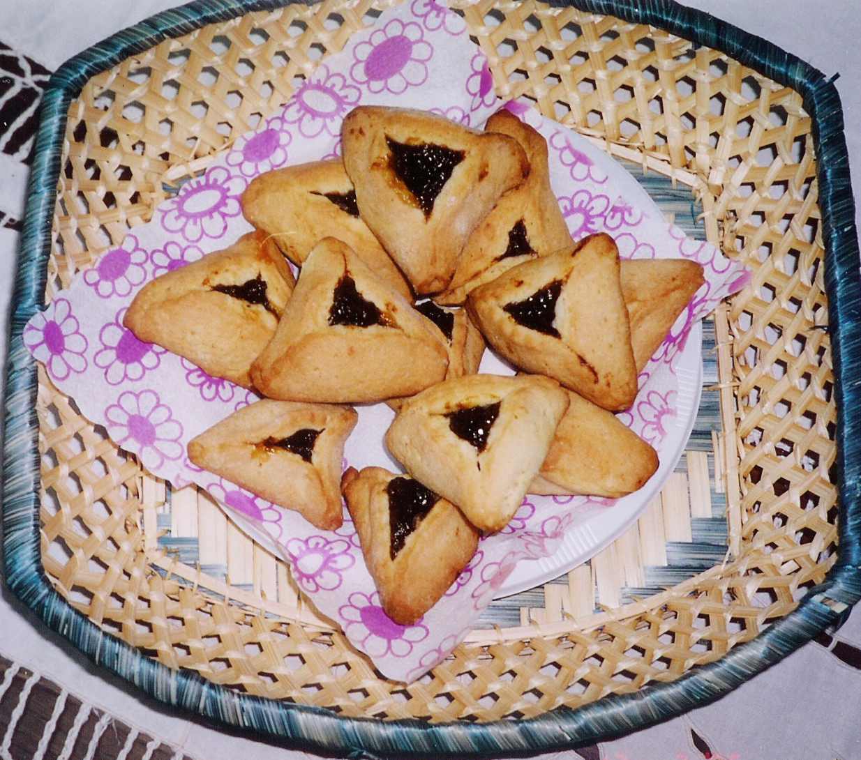 Photo of homemade prune hamantaschen